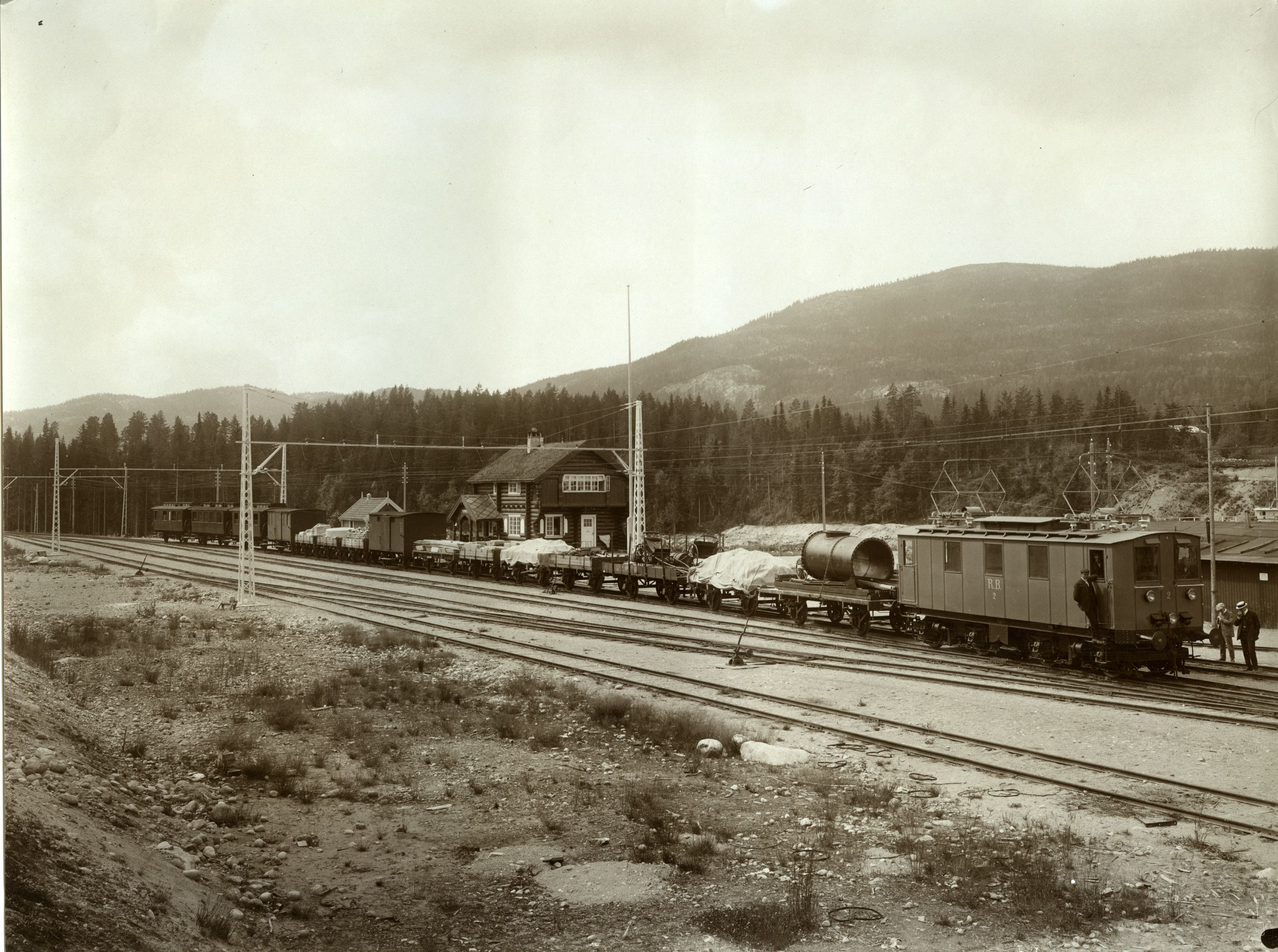 Locomotive no. 2 of Norsk Transport (El 7) at Tinnoset Station, Norway Arkivreferanse: Riksarkivet, PA-1364_U5_2_016.